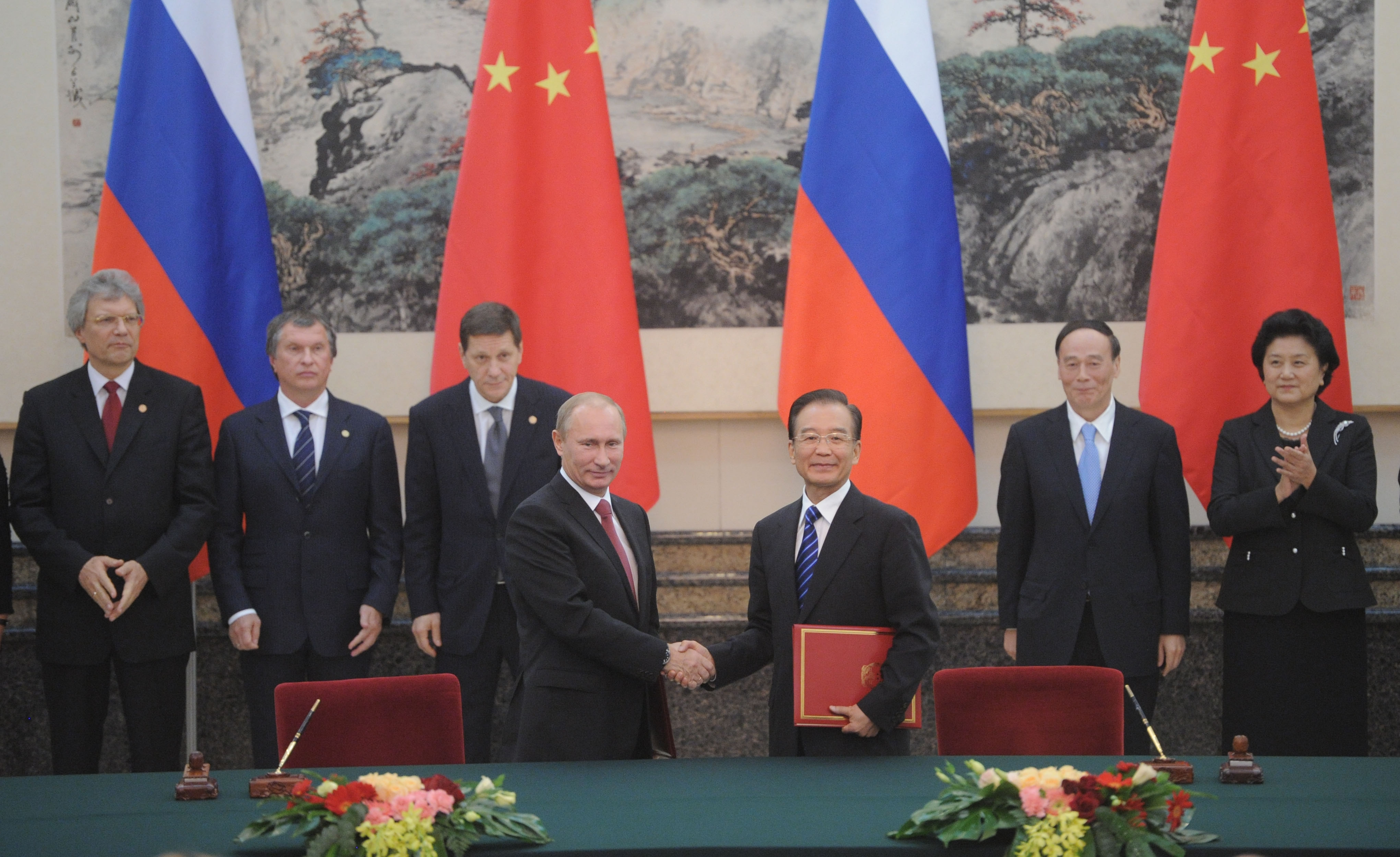 Vladimir Putin of Russia and Wen Jiabao of China